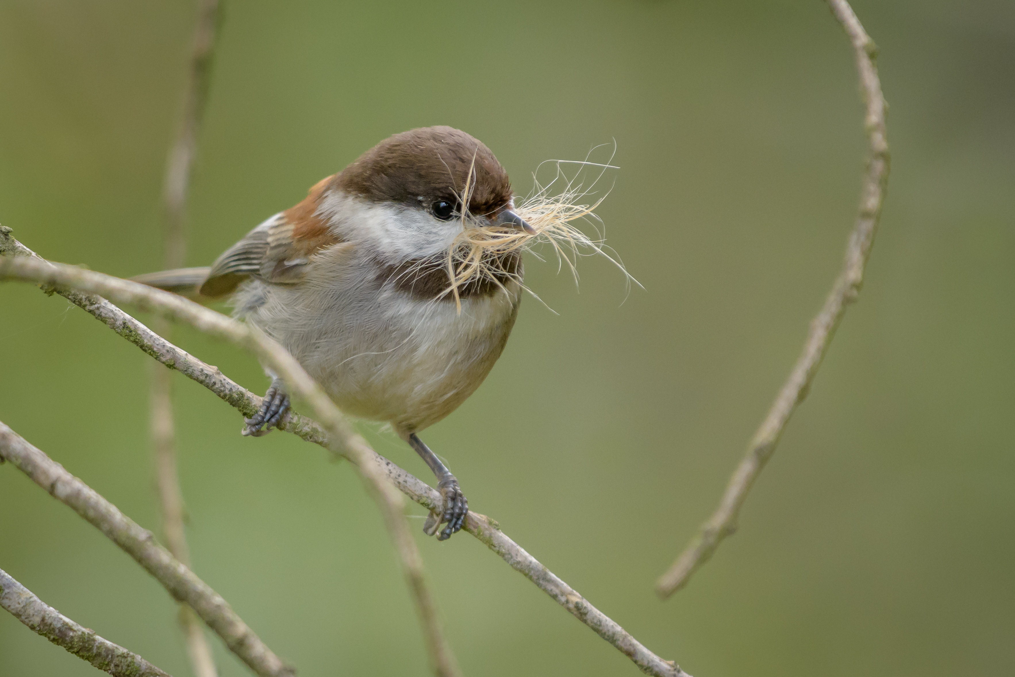 Sobrante Ridge Regional Reserve, Richmond, California